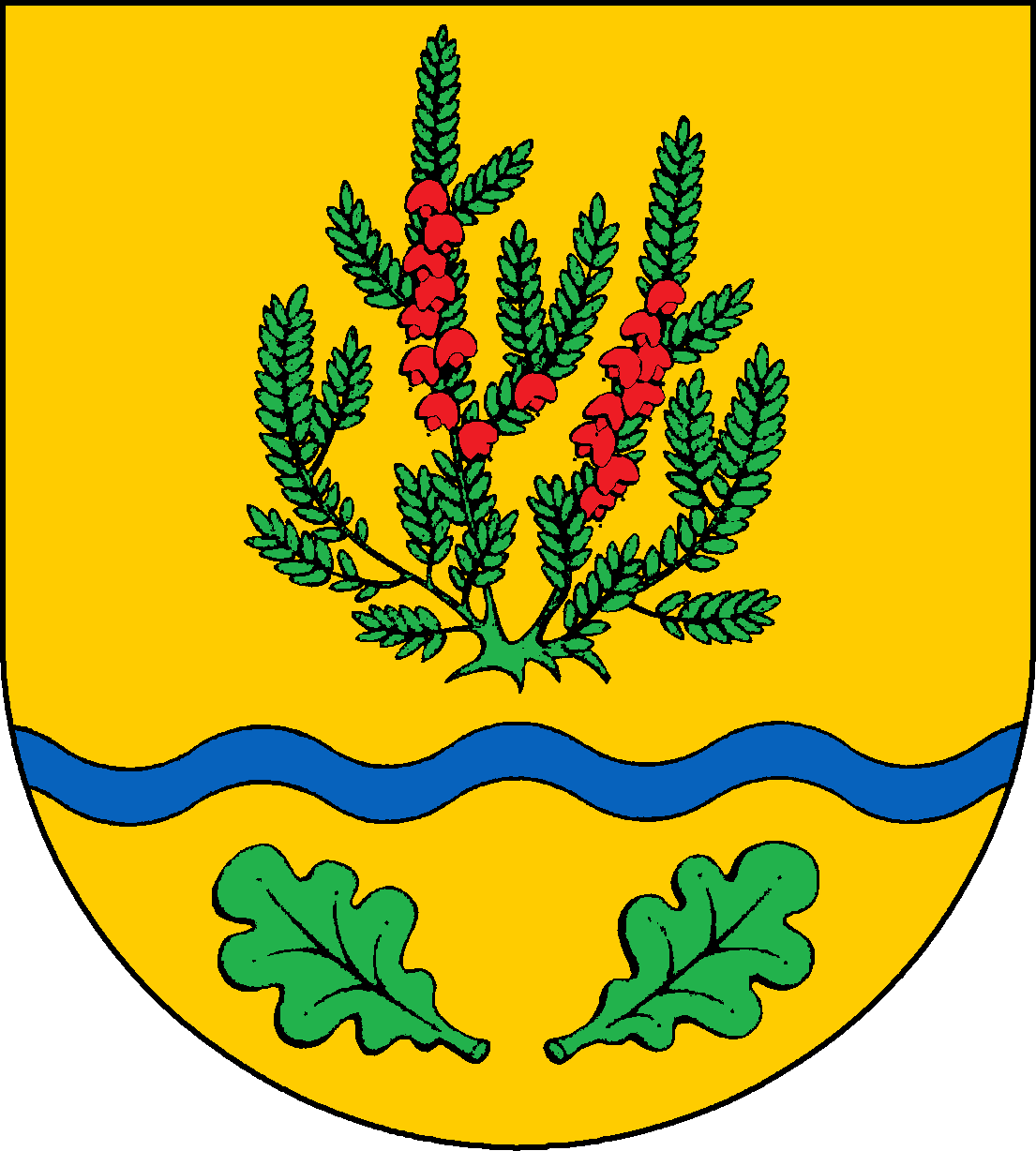 Coat of arms of the municipality Heede in Schleswig-Holstein, Germany.